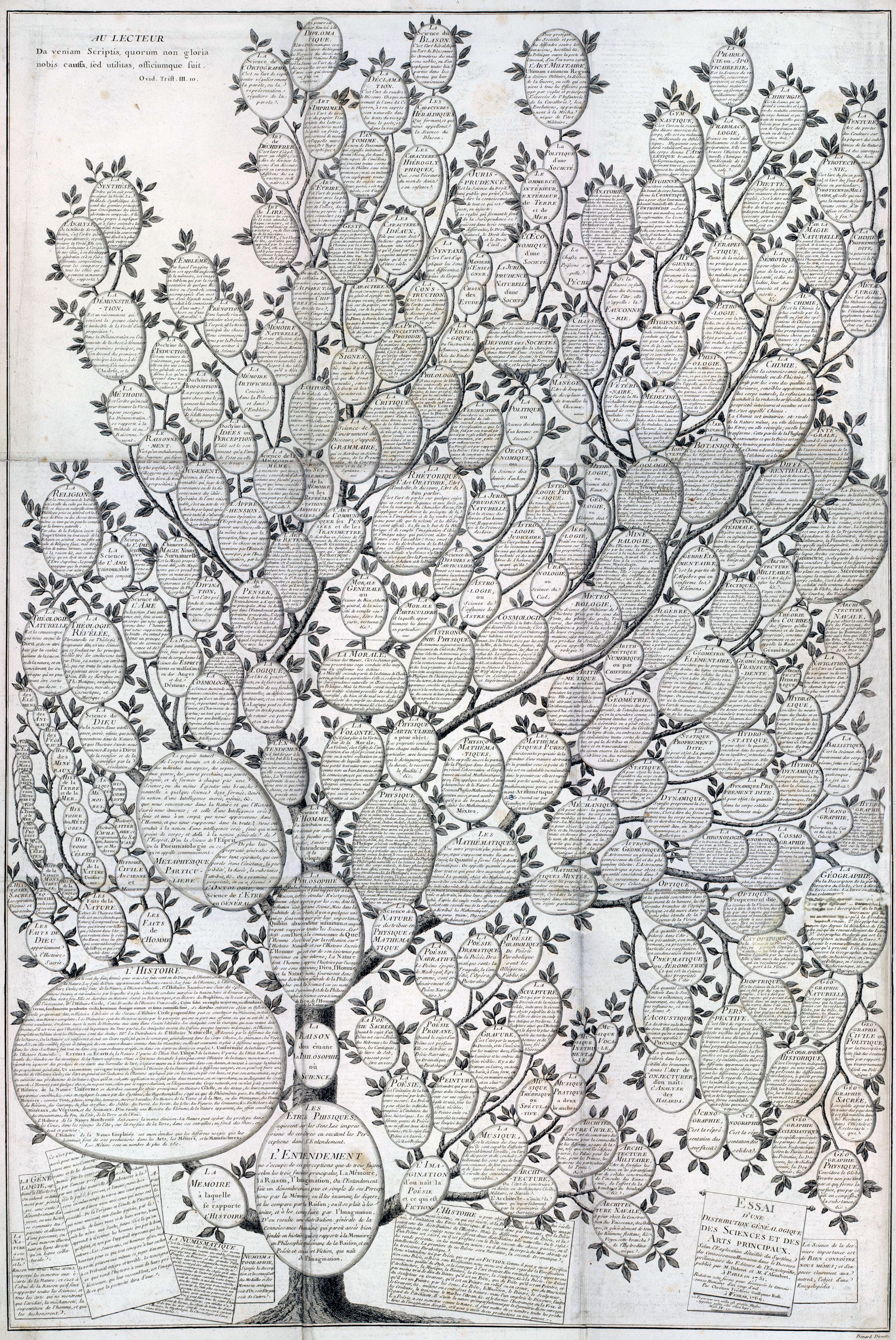 Tree of knowledge based on the French Encyclopedie from 1780